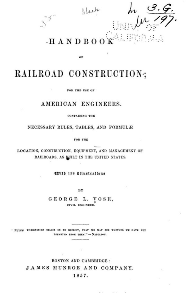 Title page of Handbook of Railroad Construction, 1857.